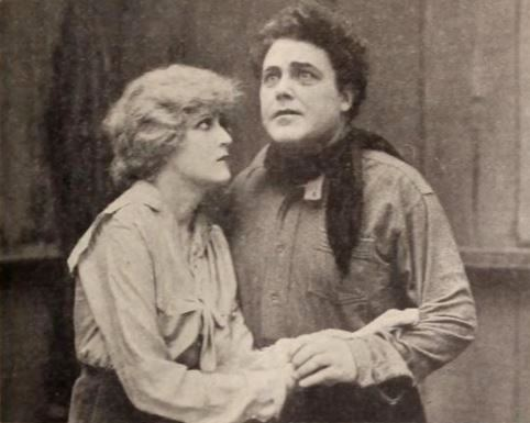 Still from the American western True Blue (1918) with Kathryn Adams and William Farnum. on page 27 of the May 25, 1918 Exhibitors Herald.